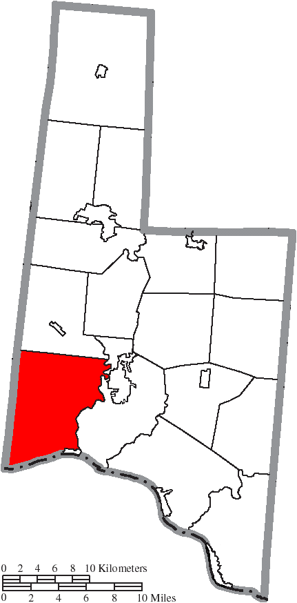 Map of the municipal and township boundaries of Brown County, Ohio, United States, as of the 2000 census, with the location of Lewis Township highlighted. Township borders are shown only in unincorporated areas in order to differentiate incorporated and unincorporated areas more clearly.